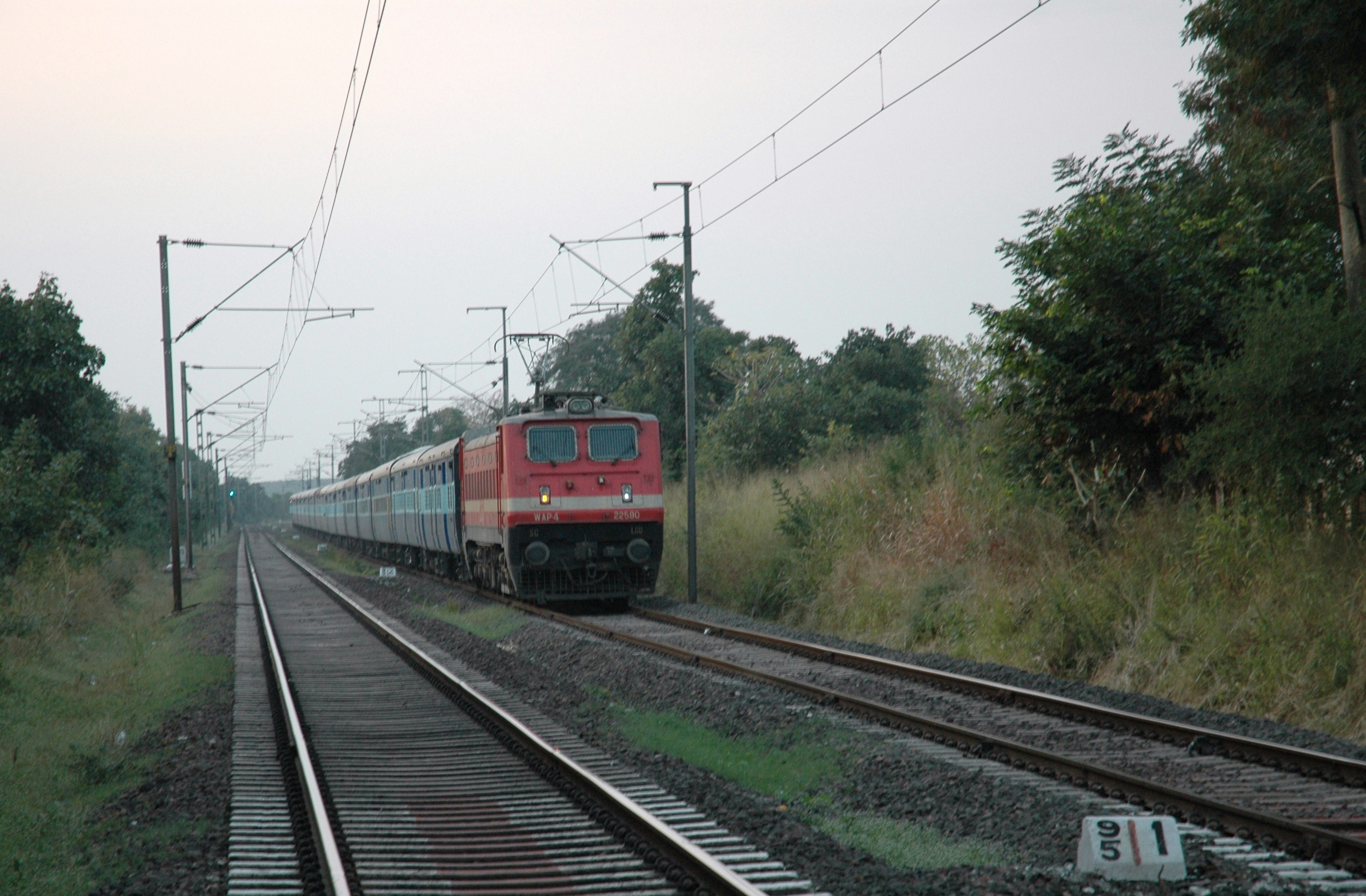 A train near Bhopal, India